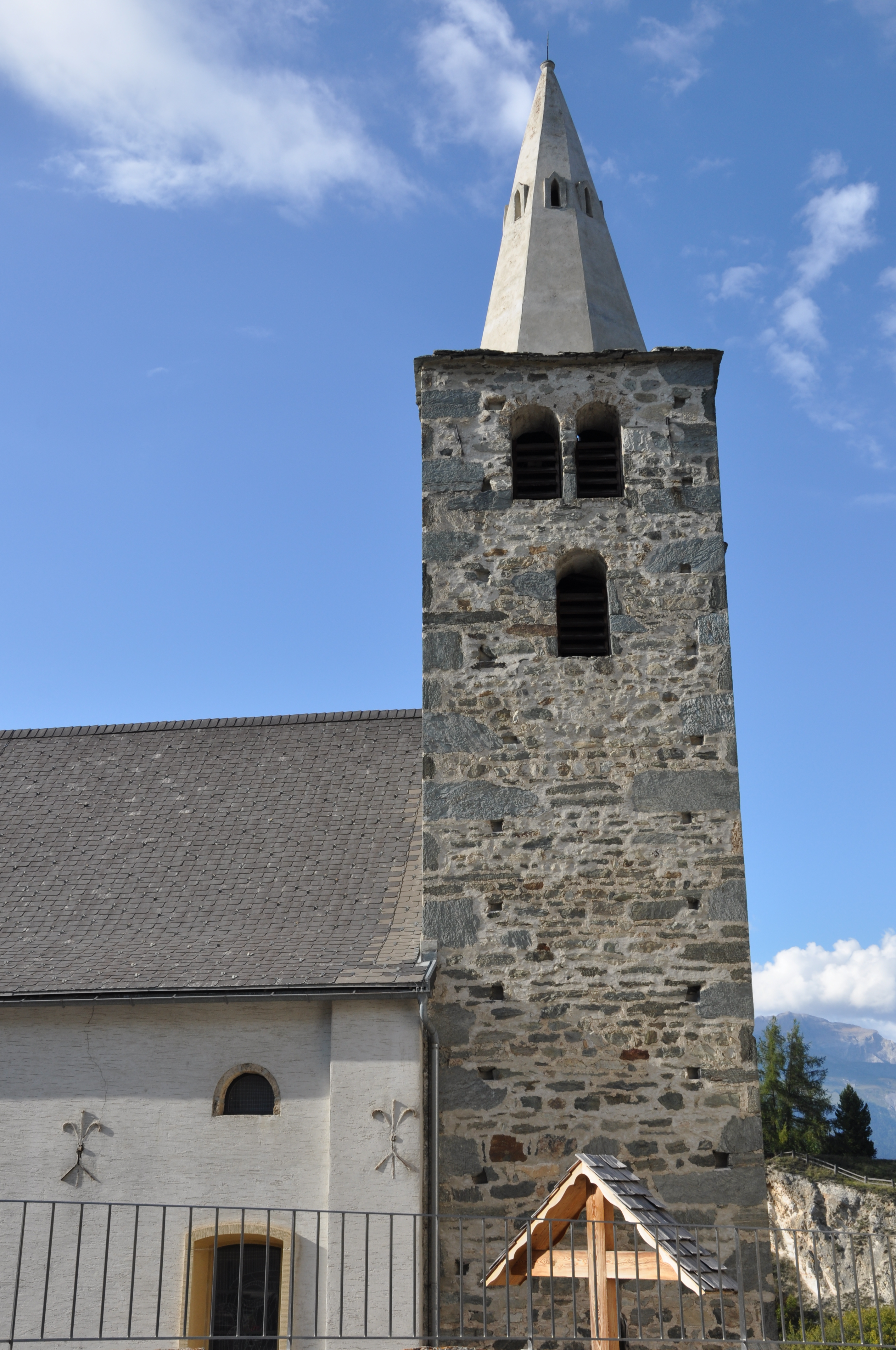 Église Saint-Maurice et Saint-Gothard (clocher et autels)